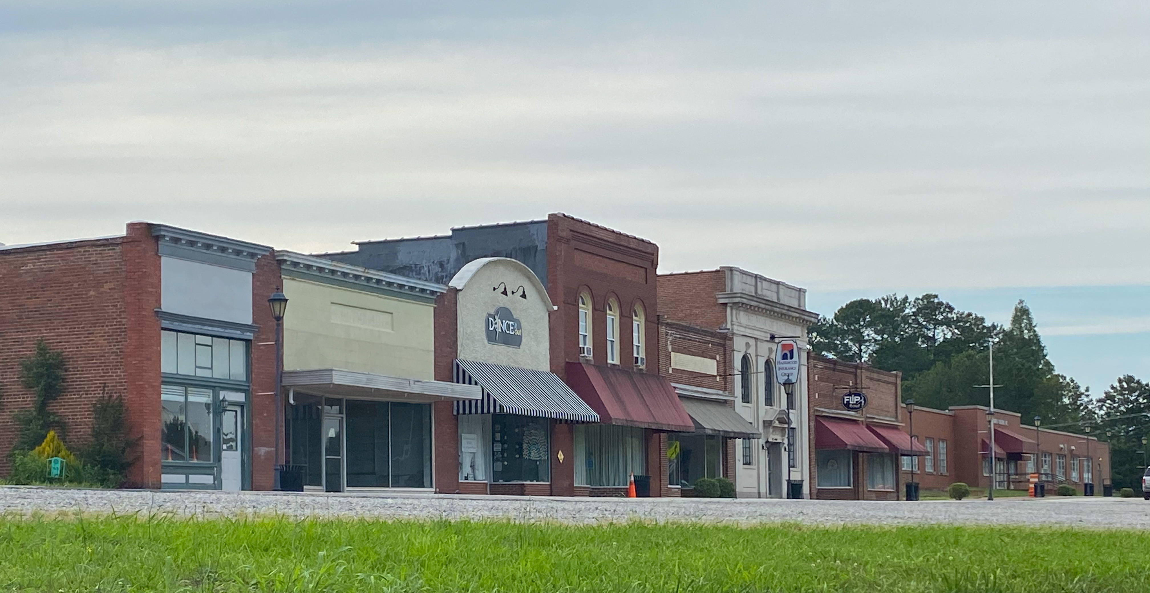 A view of the Skyline at La Crosse Virginia at the old downtown on Main Street.